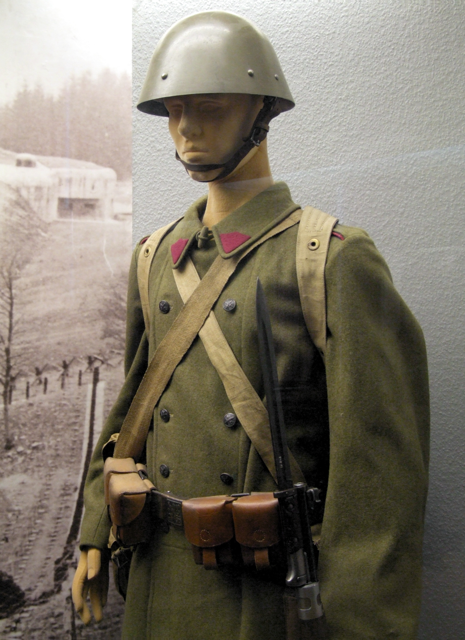 Field winter uniform, Czechoslovak Army